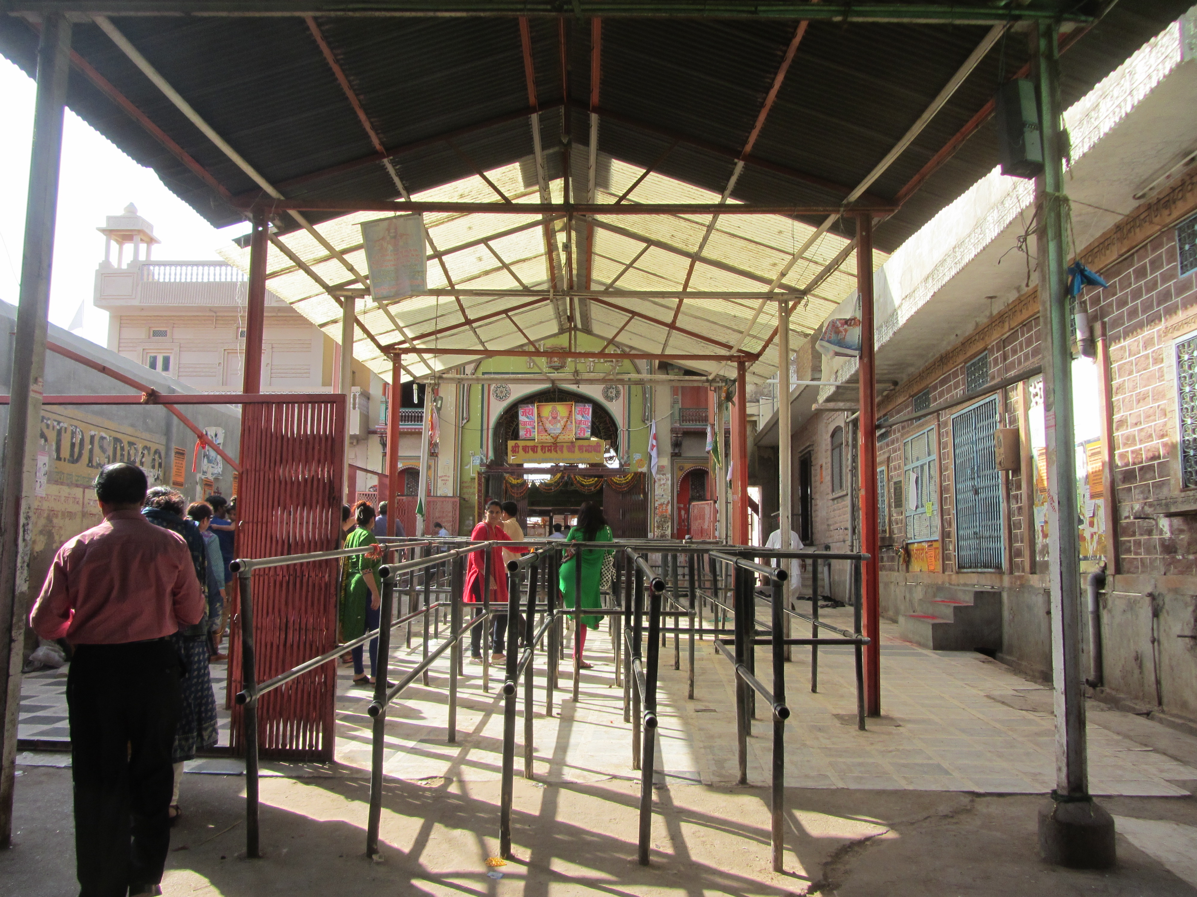 The resting place of Baba Ramdev, a saint of Rajasthan